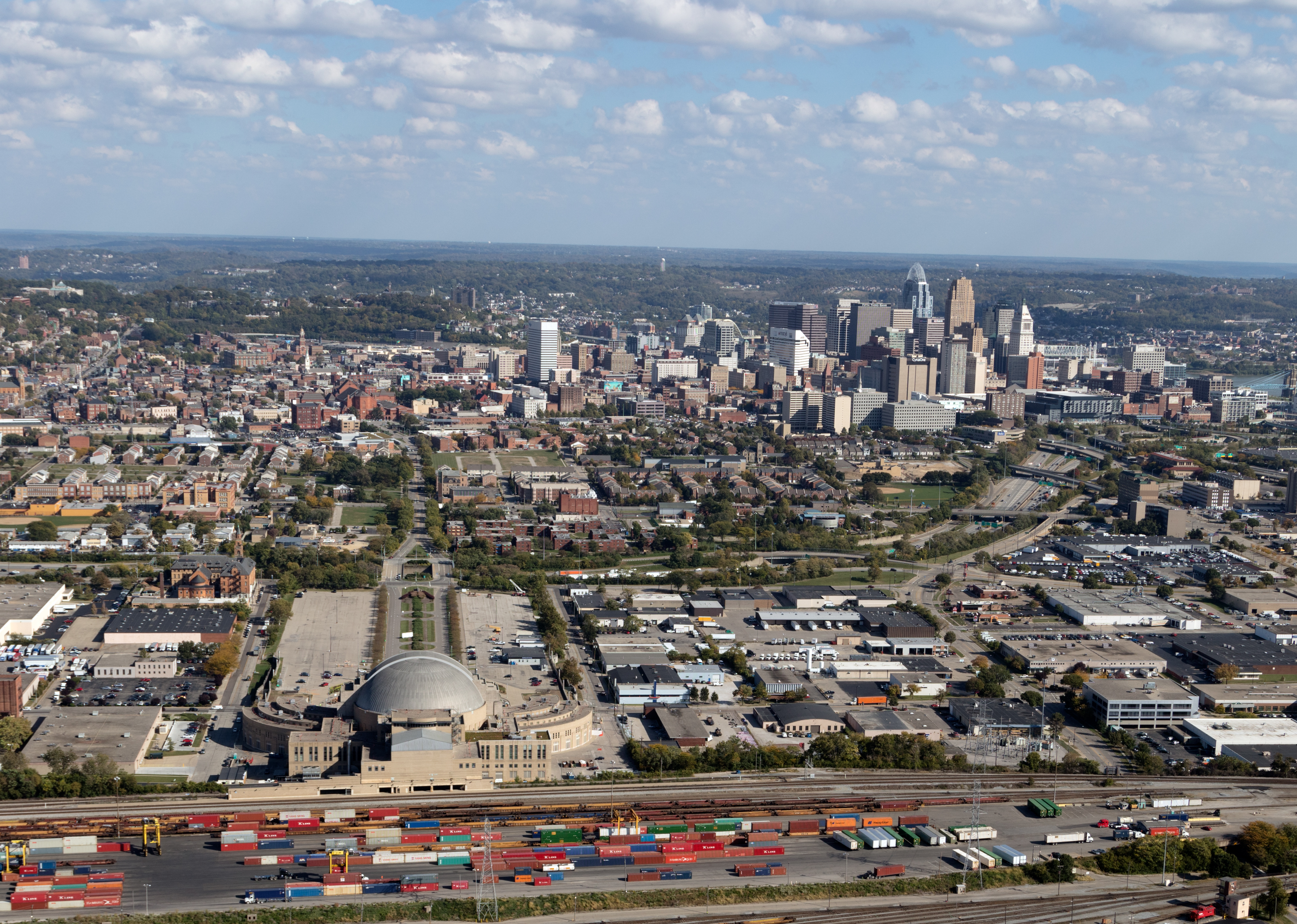 Aerial view of Union Terminal.